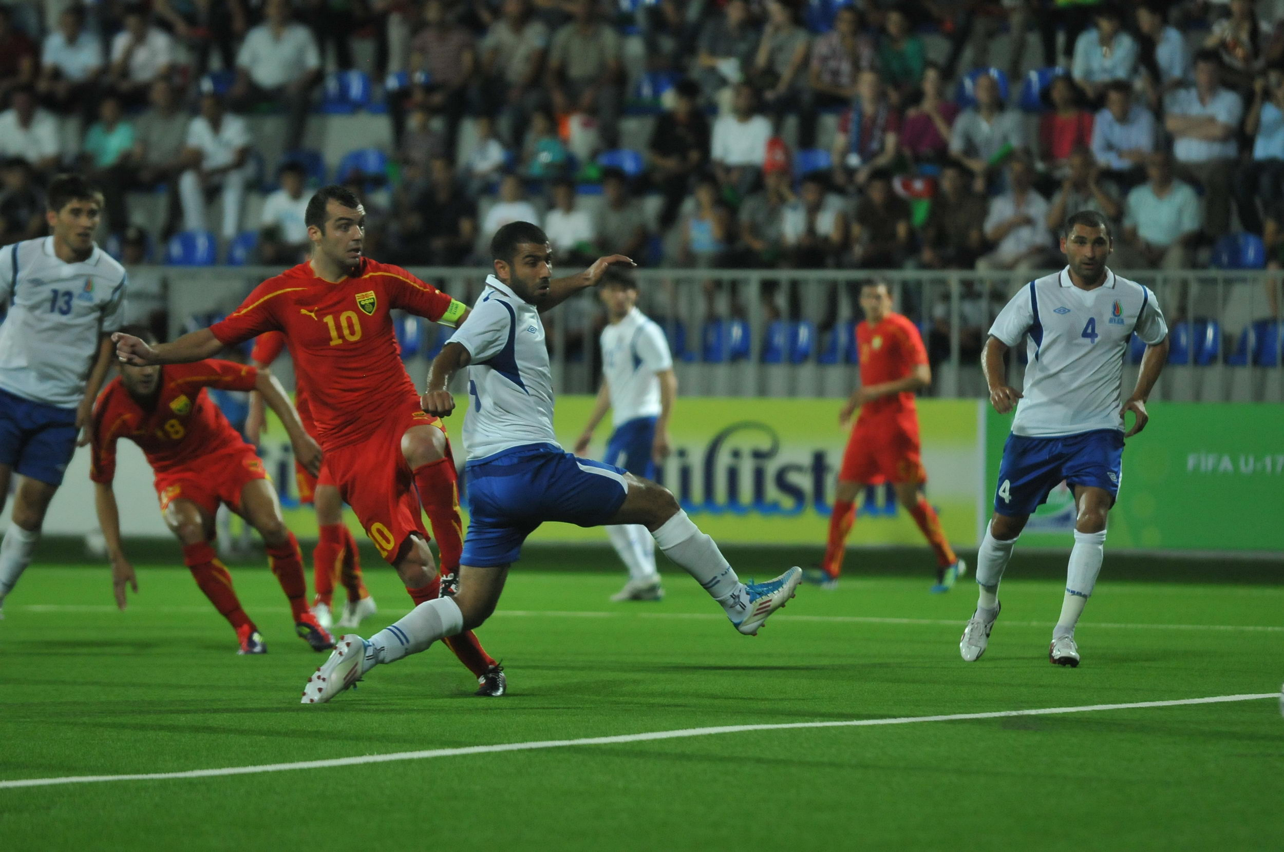 International football match Azerbaijan - Macedonia